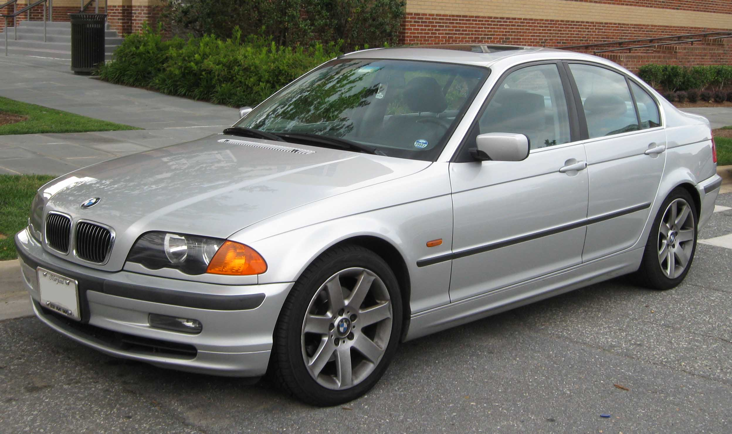 1998-2001 BMW 328i photographed in College Park, Maryland, USA.